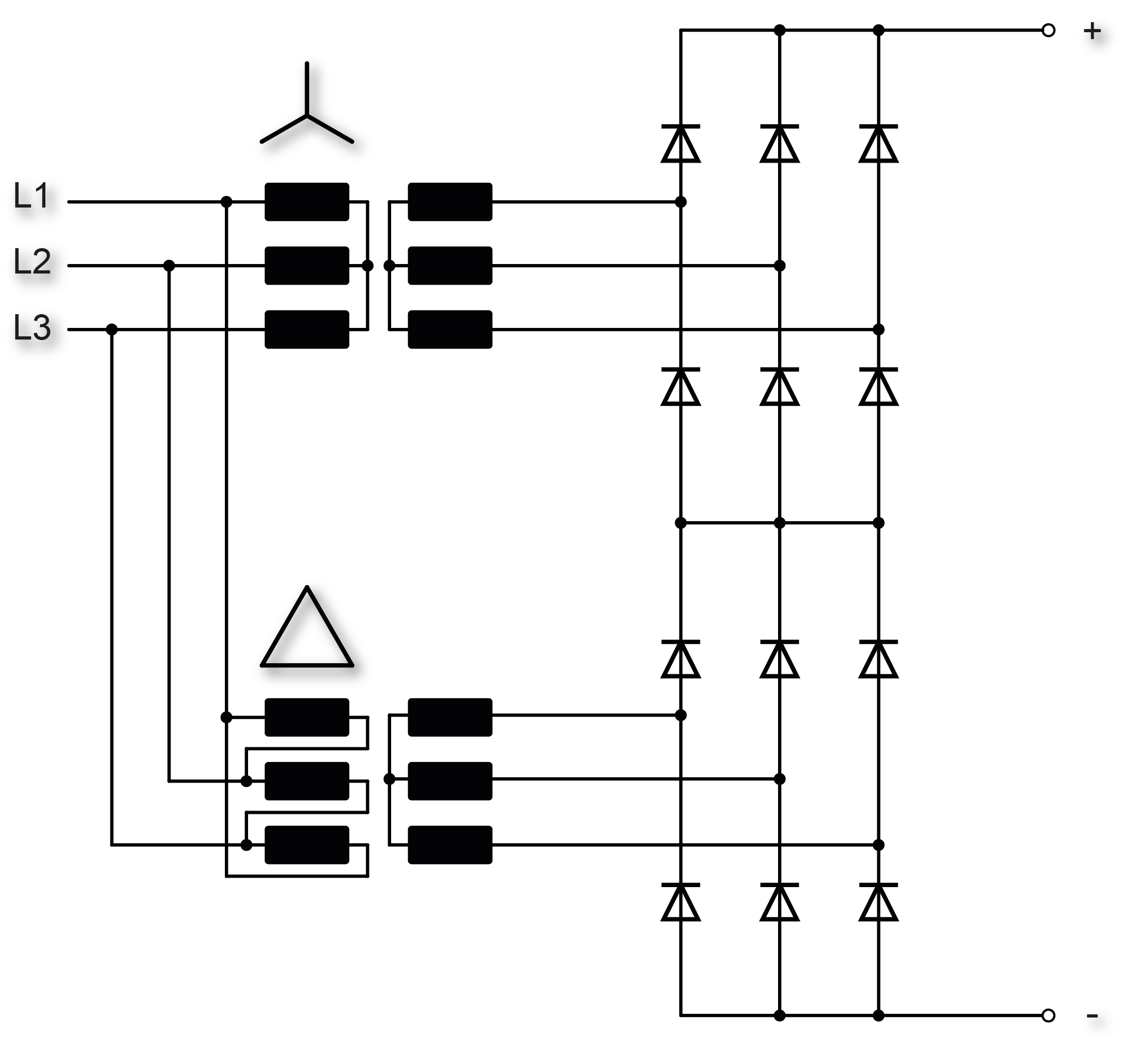 B62S twelve-pulse bridge (with two B6U three-phase full-wave rectifier in series)